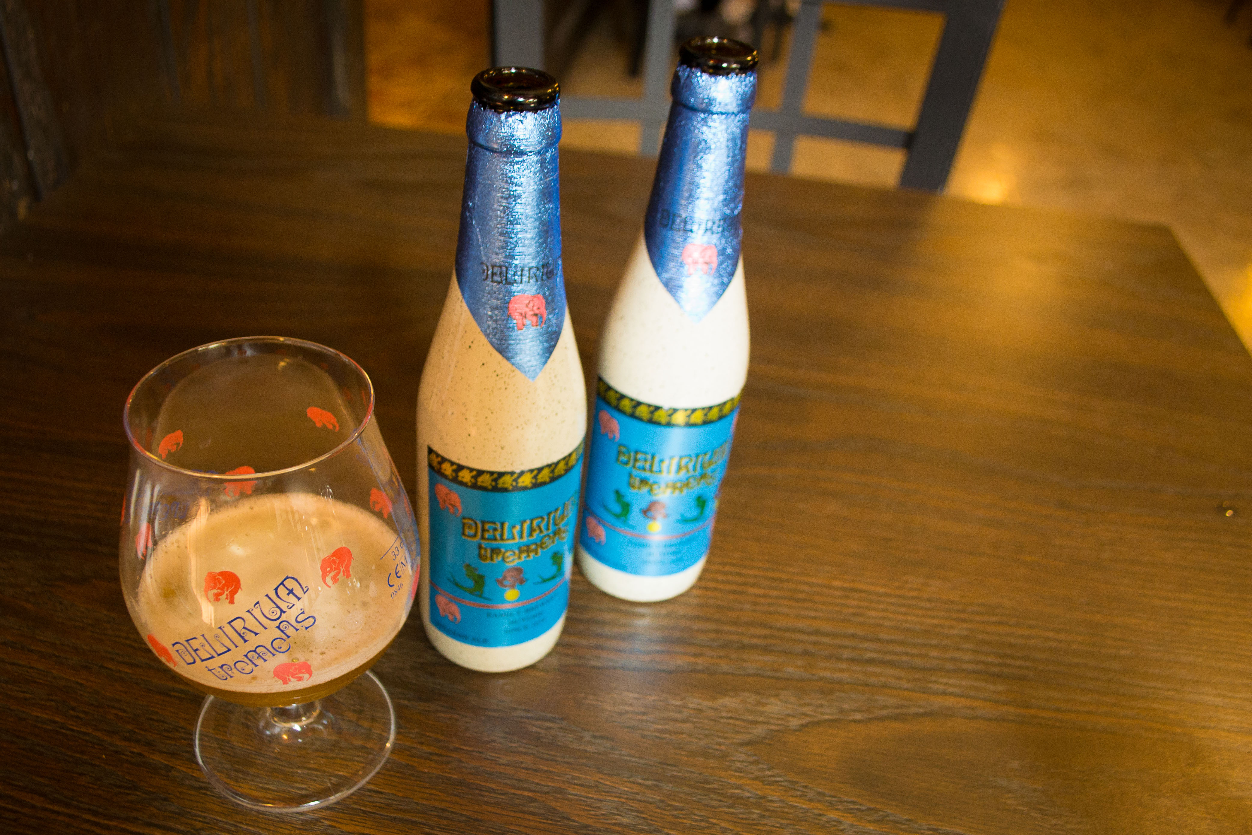 DT and a monogrammed glass